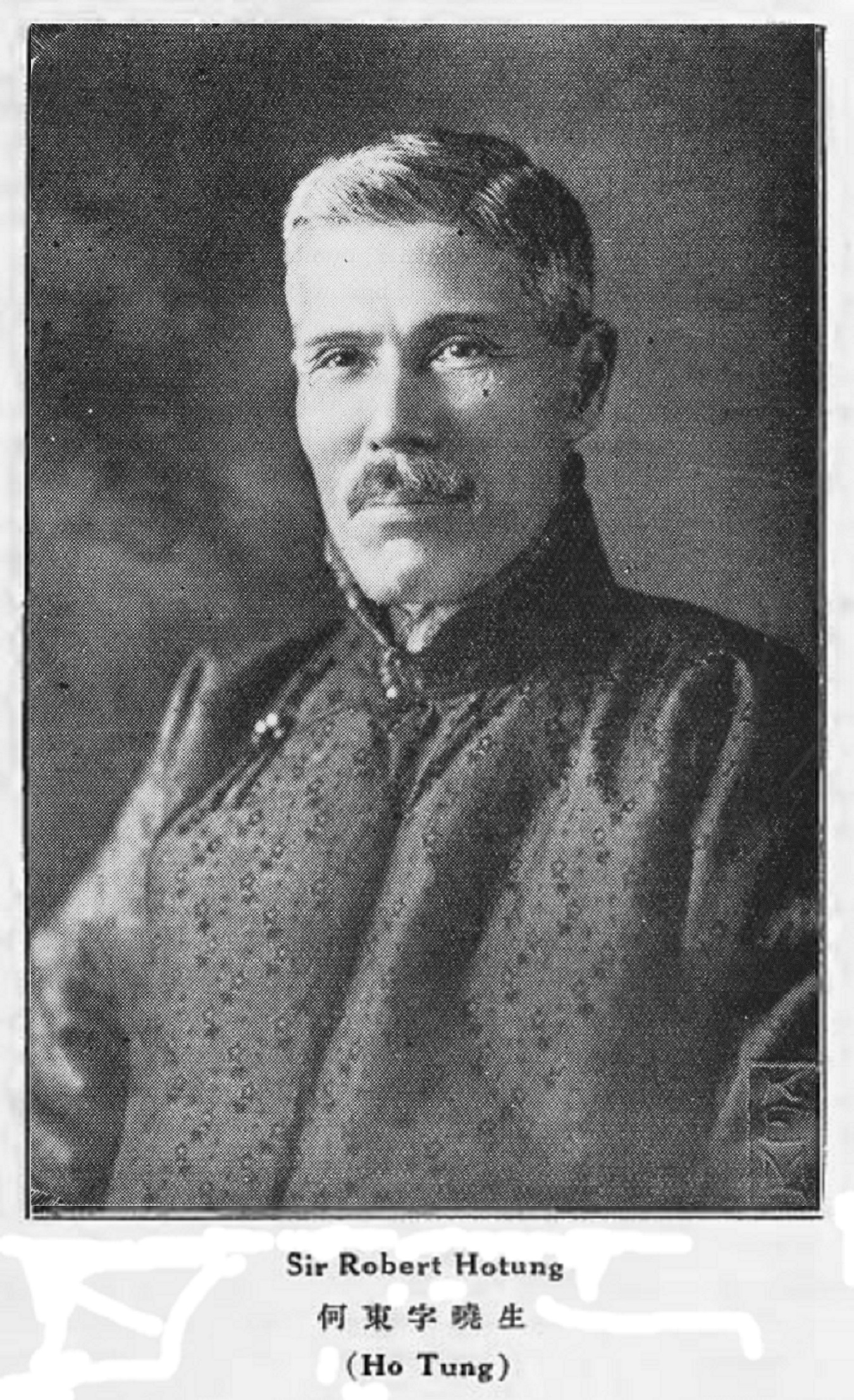 He Dong (1862-1956)